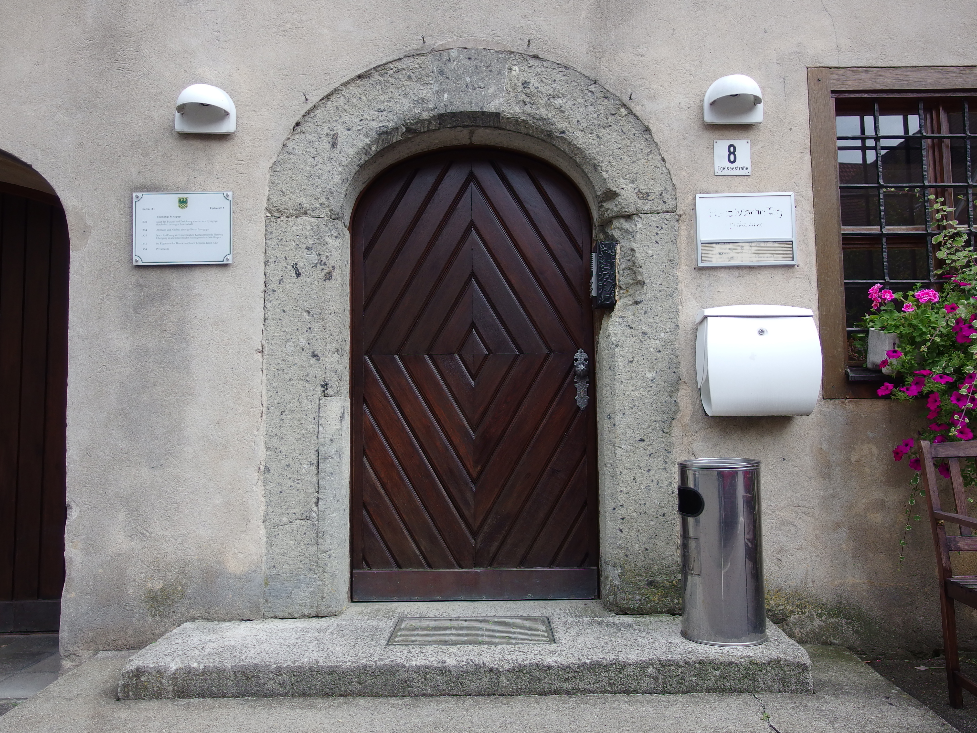 This is a photograph of an architectural monument.